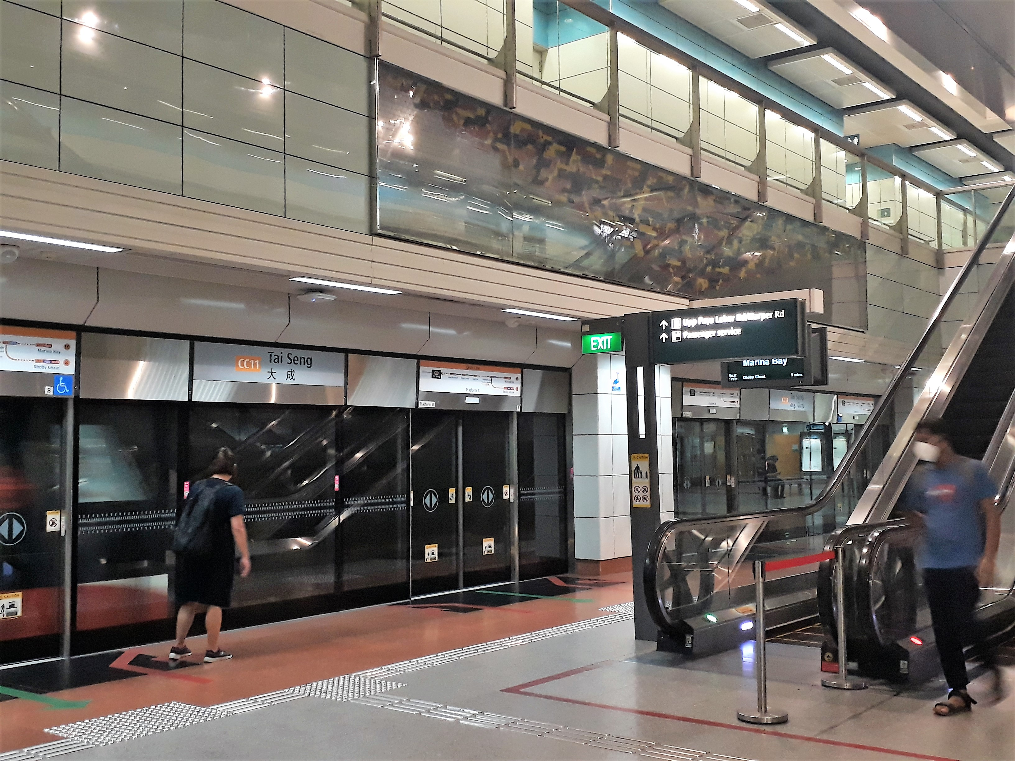 Artwork featured in Tai Seng MRT